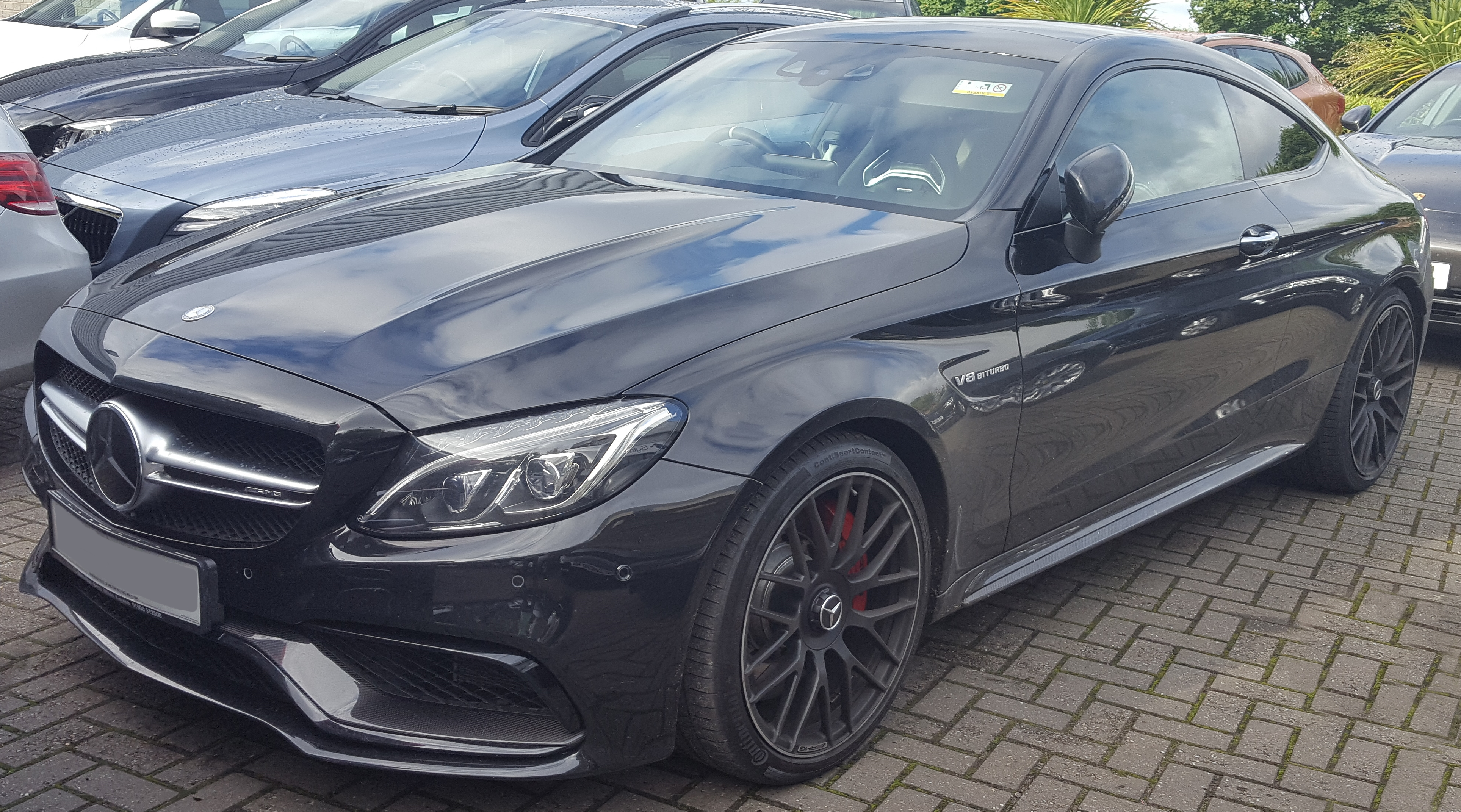 2017 Mercedes-AMG C 63 S Premium Automatic 4.0 Taken in Leamington Spa